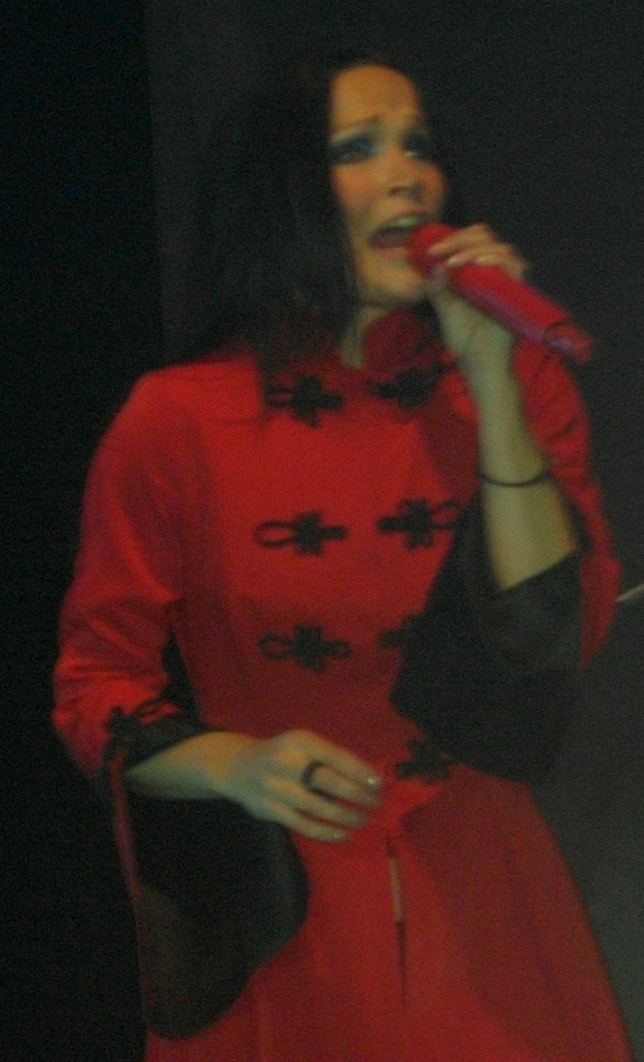 Tarja Turunen live in Sofia.